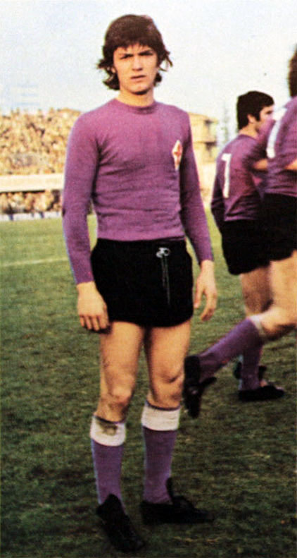 Italian footballer Giancarlo Antognoni with A.C. Fiorentina in the 1974–75 season.